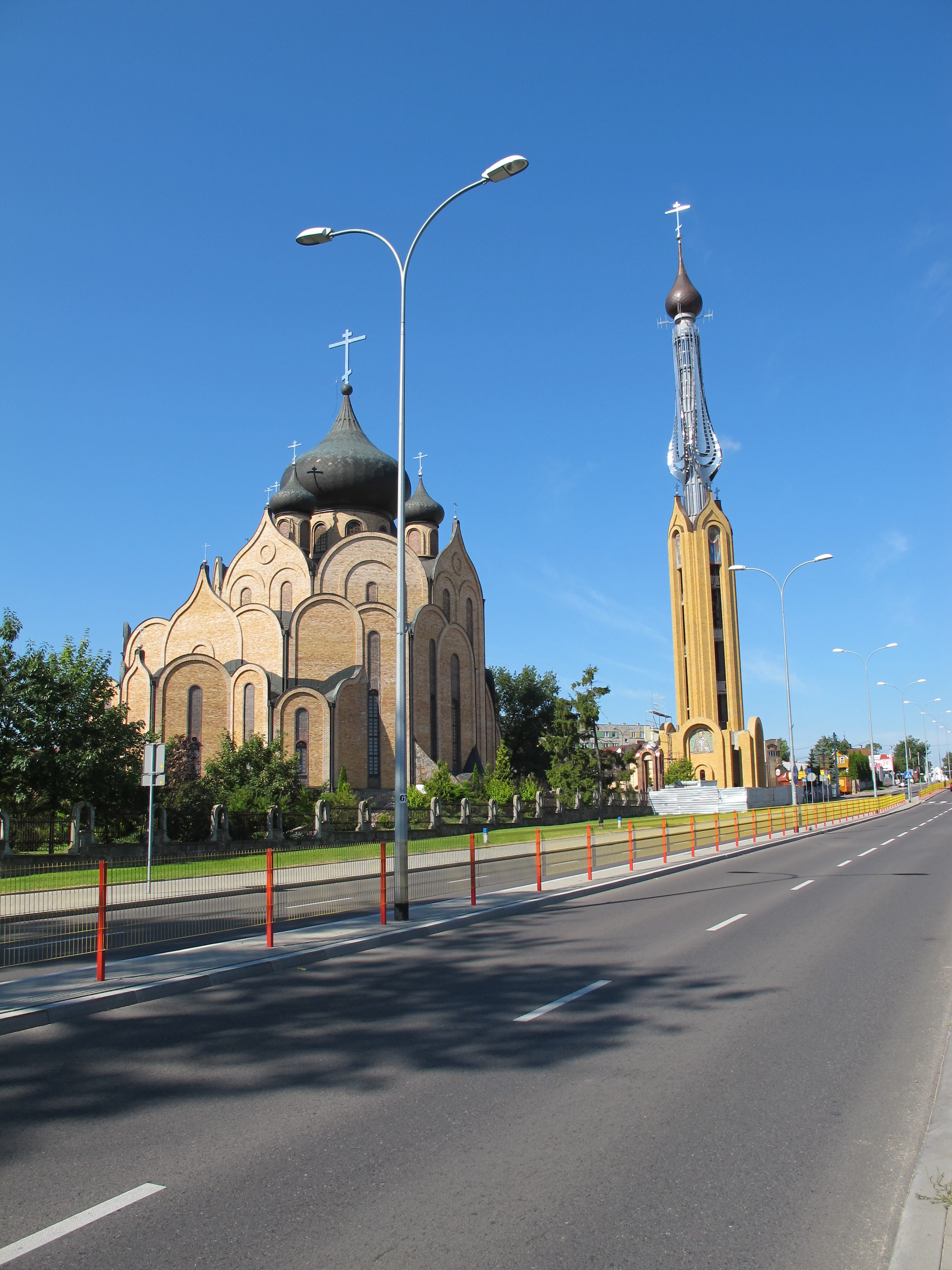 Holy Spirit orthodox church by Antoniuk Fabryczny 13 street in Białystok, gmina Białystok, podlaskie, Poland